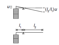 Ideal concept of a mechanically leveraged piezoelectric stack